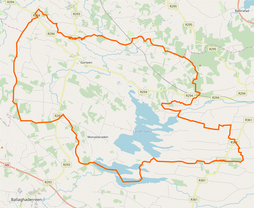 Barony of Coolavin, County Sligo, Republic of Ireland This map may be incomplete, and may contain errors. Don't rely solely on it for navigation.